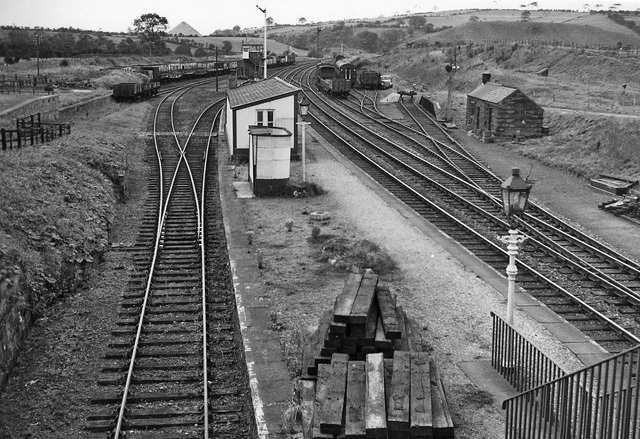 Bullgill Station (remains). View SW, towards Maryport and junction with its Derwent Valley branch to Brigham; ex-Maryport & Carlisle main line from Carlisle. Bullgill station was closed to passengers on 7/3/60, goods on 2/3/64, the branch to Brigham having closed in 4/35.